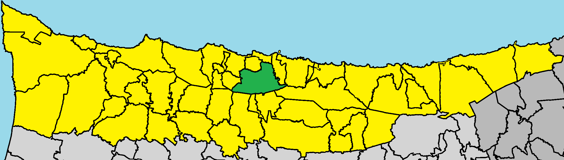 Karmi in Kyrenia District (de jure).